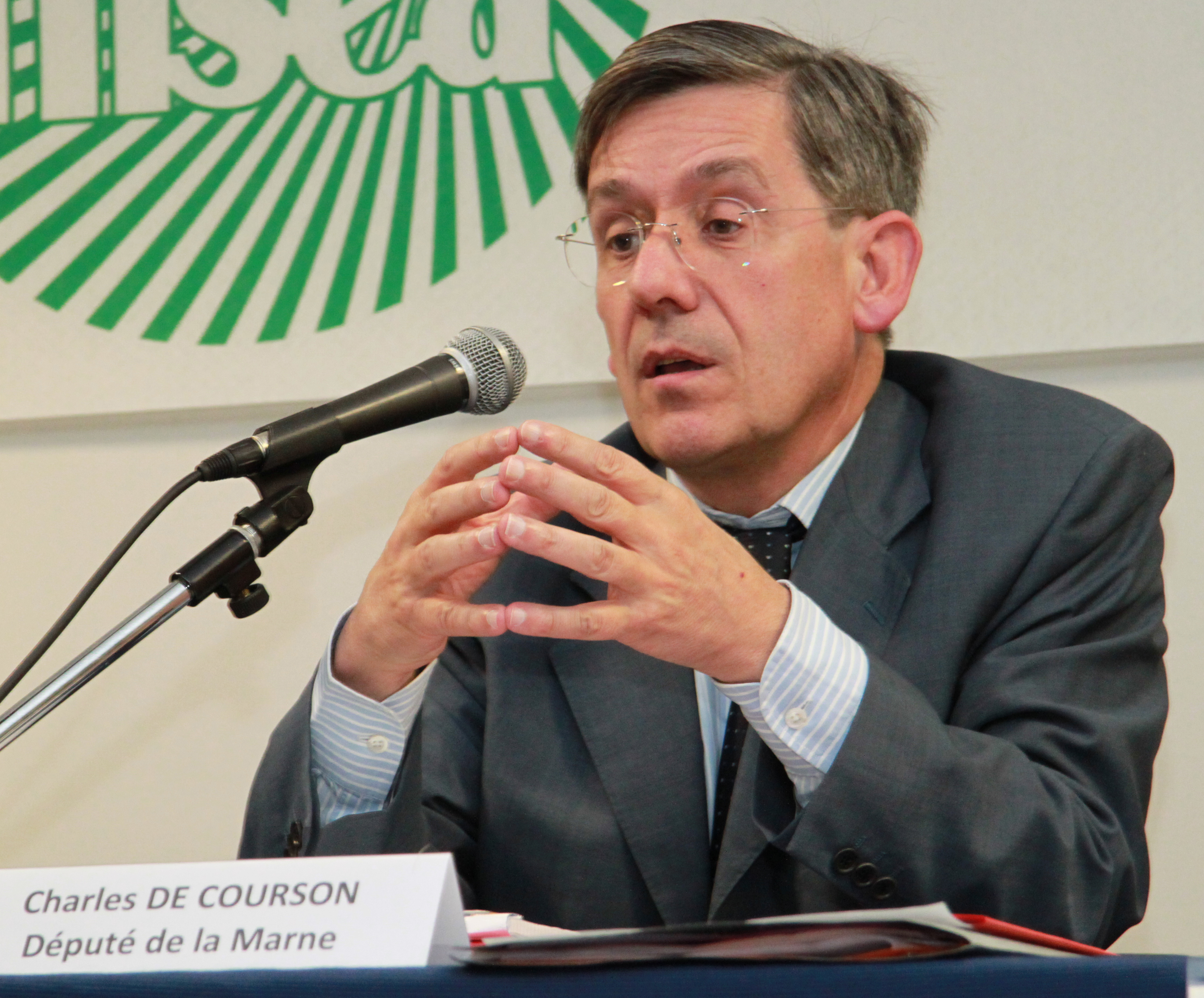 Member of the National Assembly of France. He represents the Marne department, member of the New Centre.